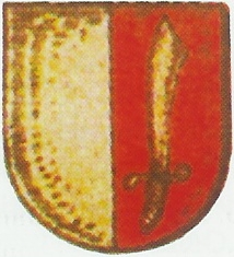 Coat of Arms of the Saxon Klinger family.